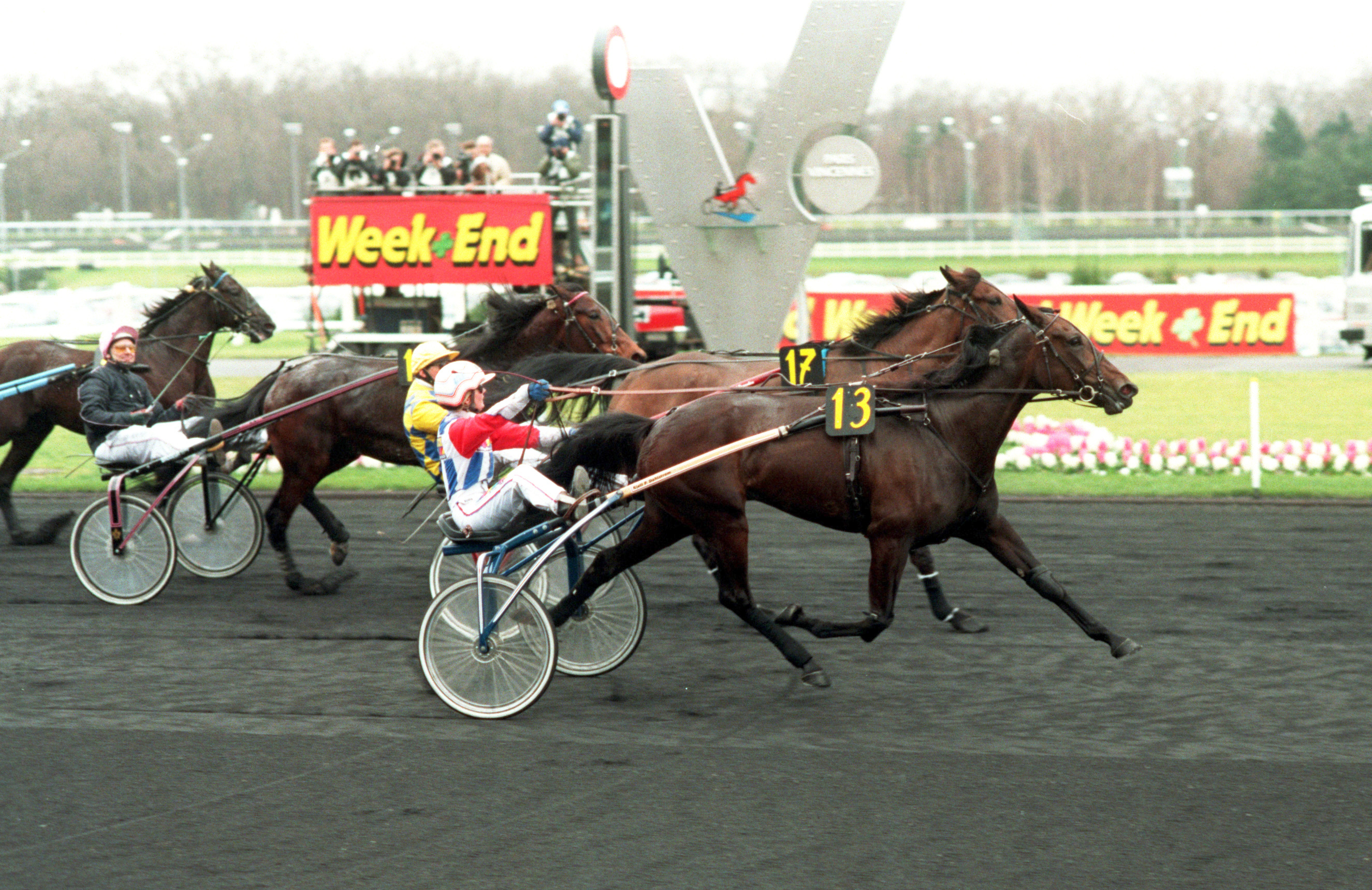 Ina Scot wins the Prix d'Amerique, with Helen A Johansson as driver.